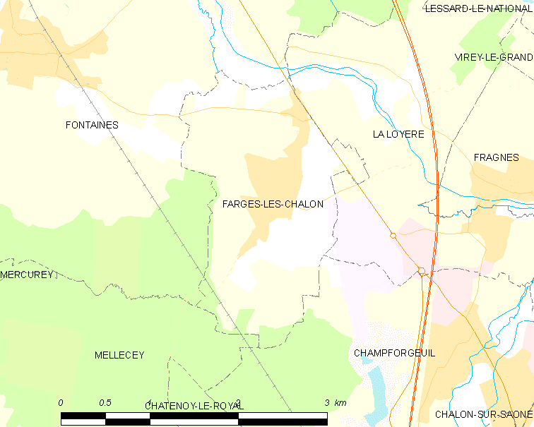 Map of French municipality